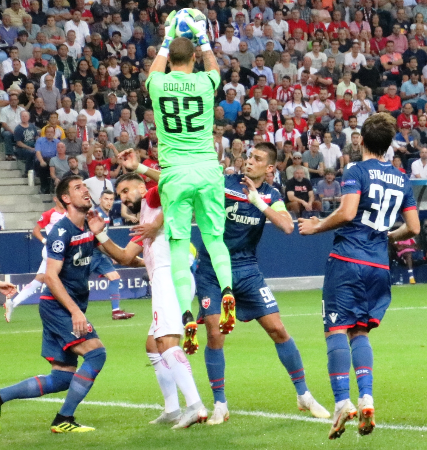 CL play off 2nd leg